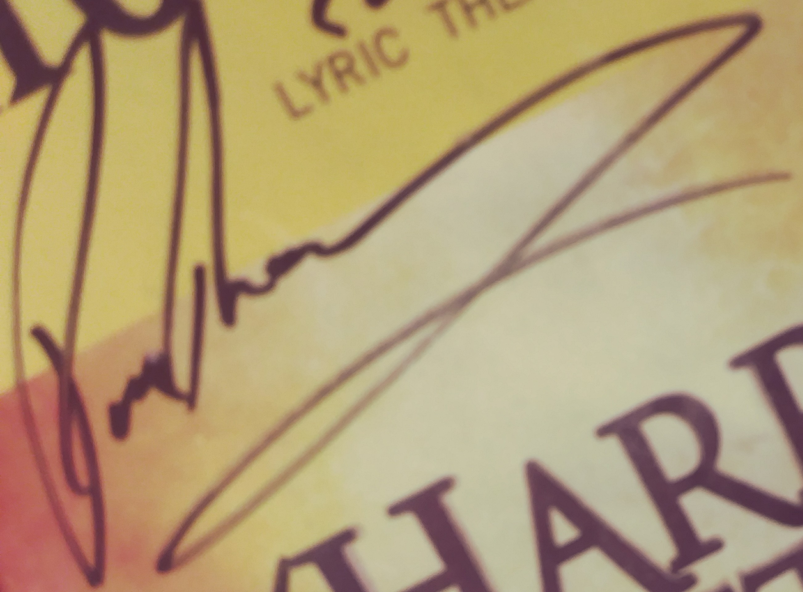 Actor Paul Thornley's signature on a program from the New York production of Harry Potter and the Cursed Child, autumn 2018)